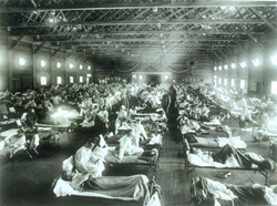 An emergency hospital at Camp Funston, Kansas, cared for large numbers of soldiers sickened by the 1918 flu. Credit: National Museum of Health and Medicine, Armed Forces Institute of Pathology, Washington, DC. Image number NCP 1603.